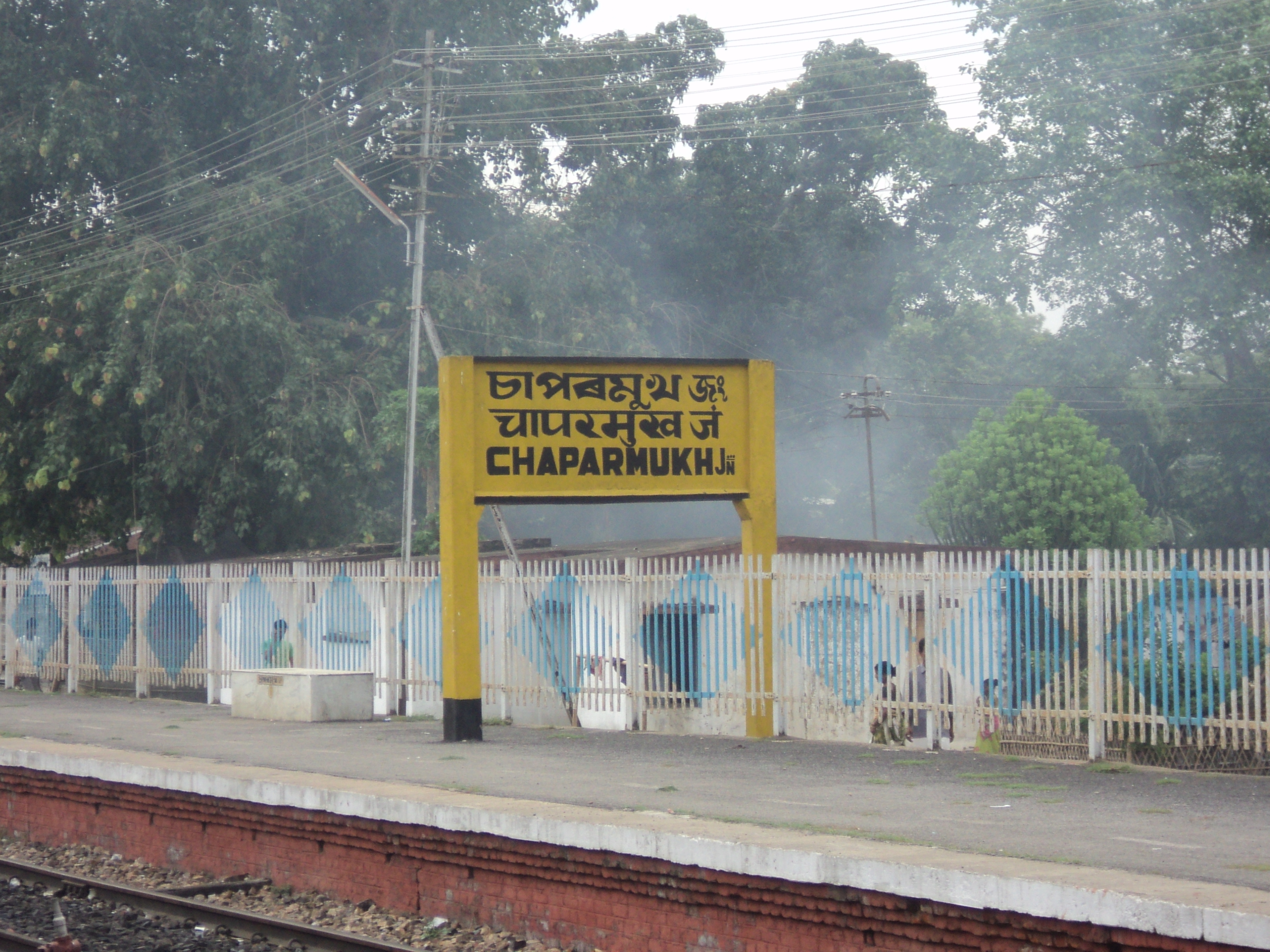 This is an image of the Railway station of Chaparmukh Junction, it falls in Assam, India